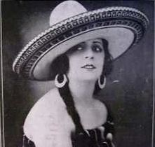 1927 Theater Poster of Argentine actress Olinda Bozán